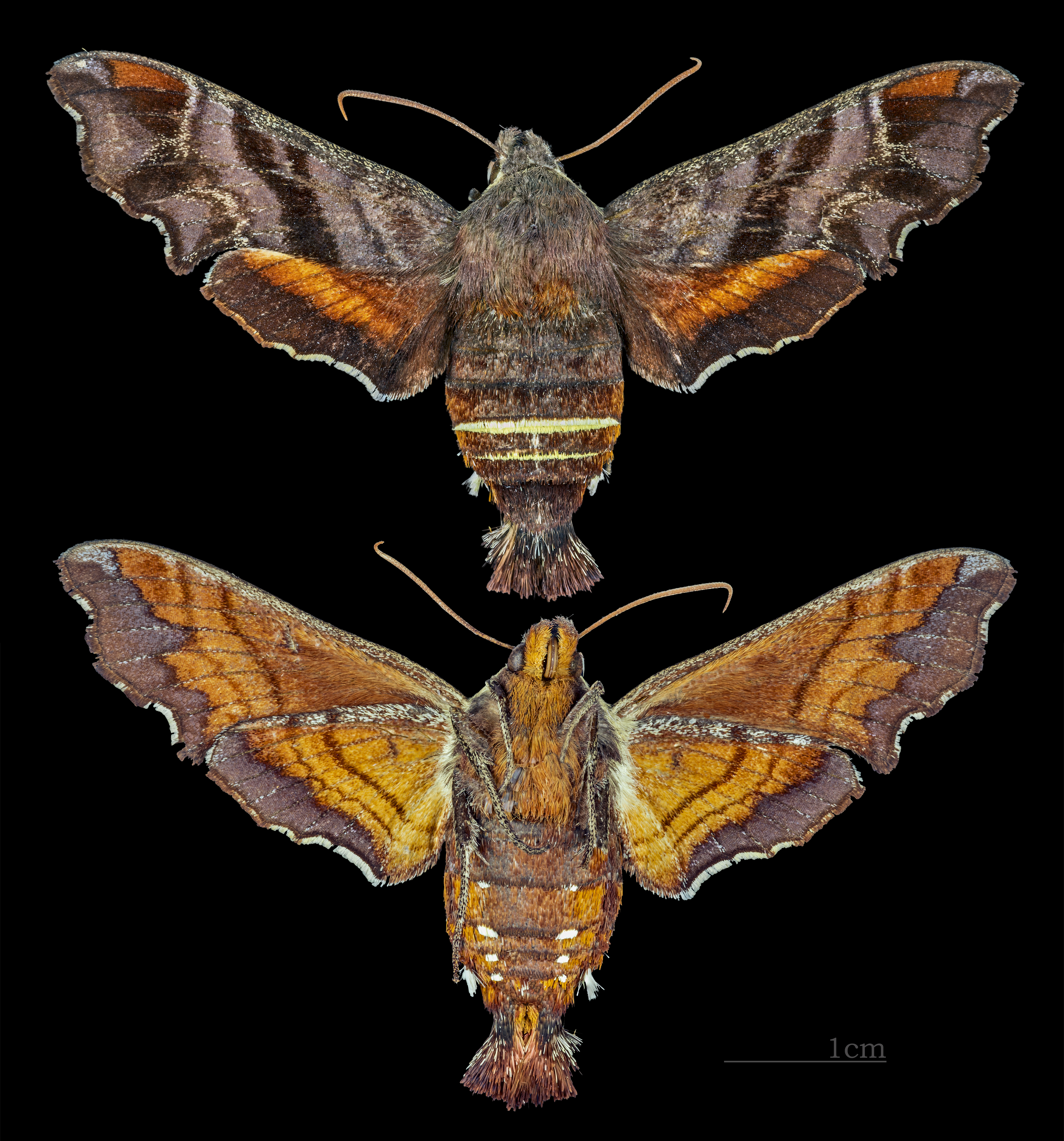 Nessus Sphinx - Two views of same specimen Collection of the Mathematician Laurent Schwartz